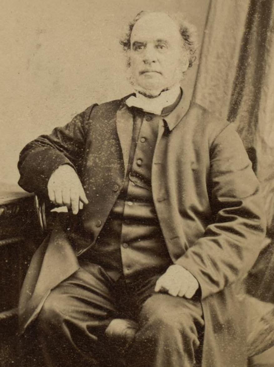 A portrait from the Welsh Portrait Collection at the National Library of Wales. Depicted person: Roger Edwards – British newspaper editor